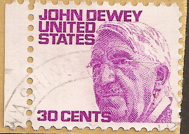 30-cents stamp of the USA figuring american philosopher John Dewey, issued 21 October 1968.